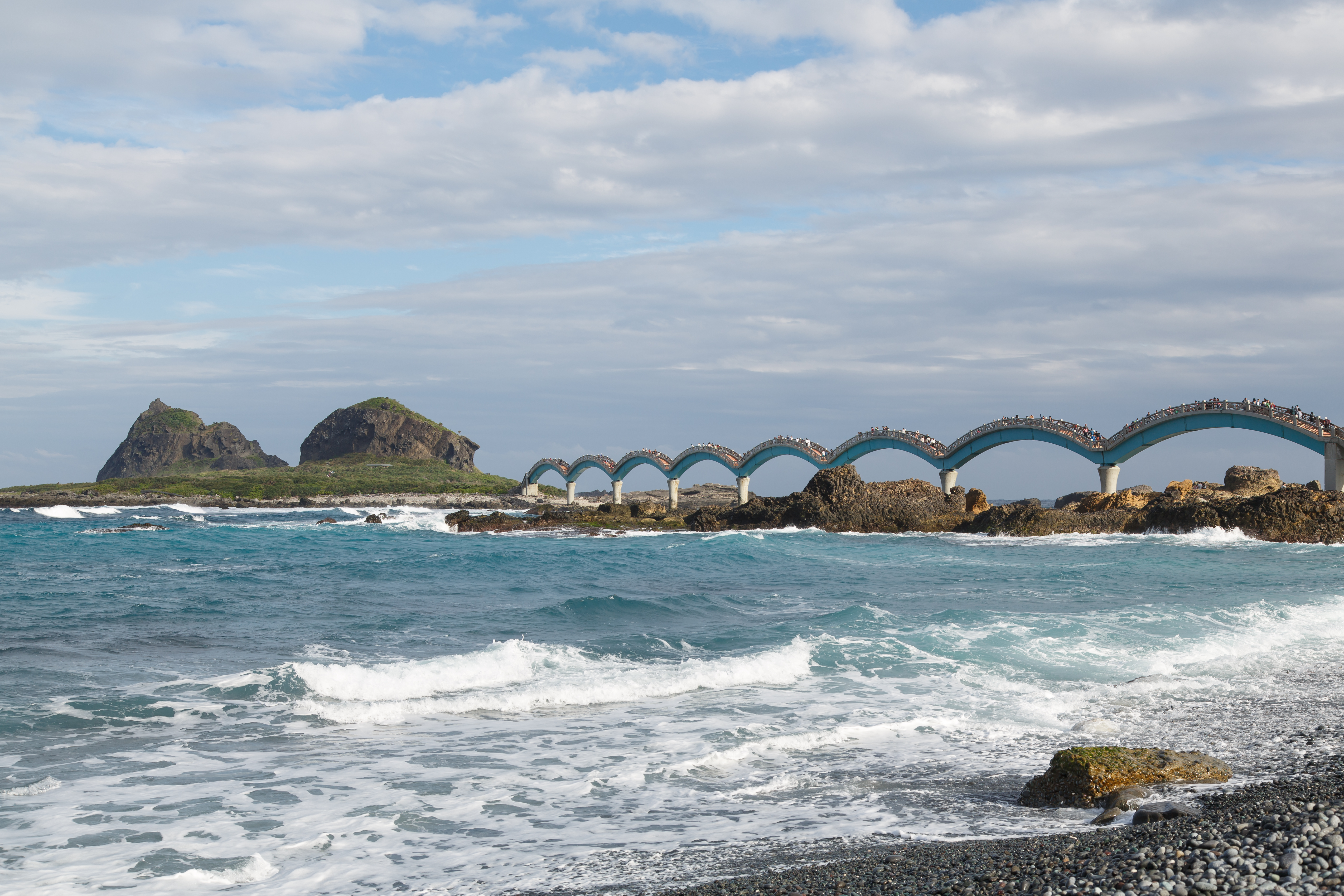 Taitung County, Taiwan: The eight arches of Sansiantai Bridge and the "Three Immortals" rock.